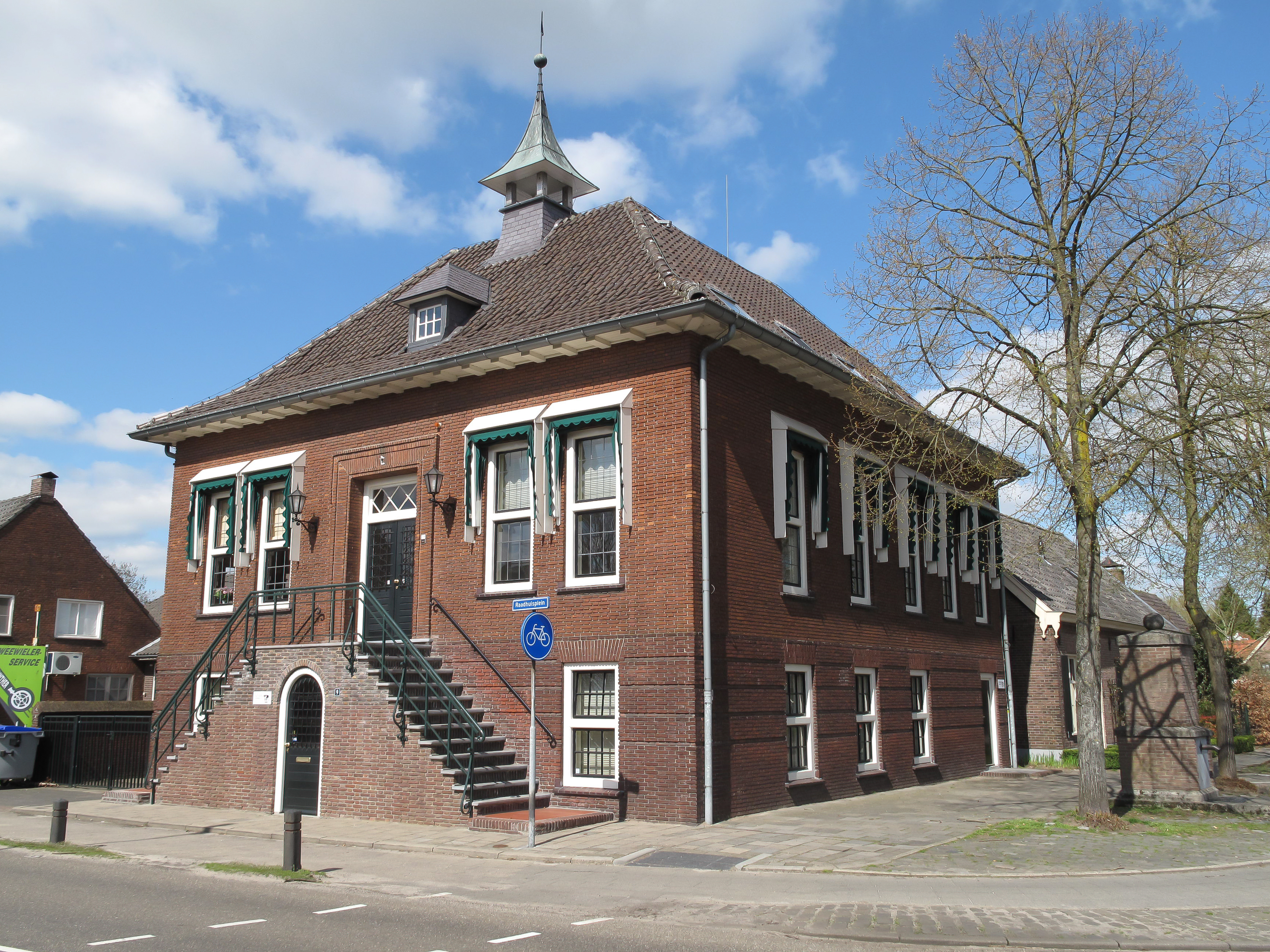 Dinther, monumental house, ancien town hall